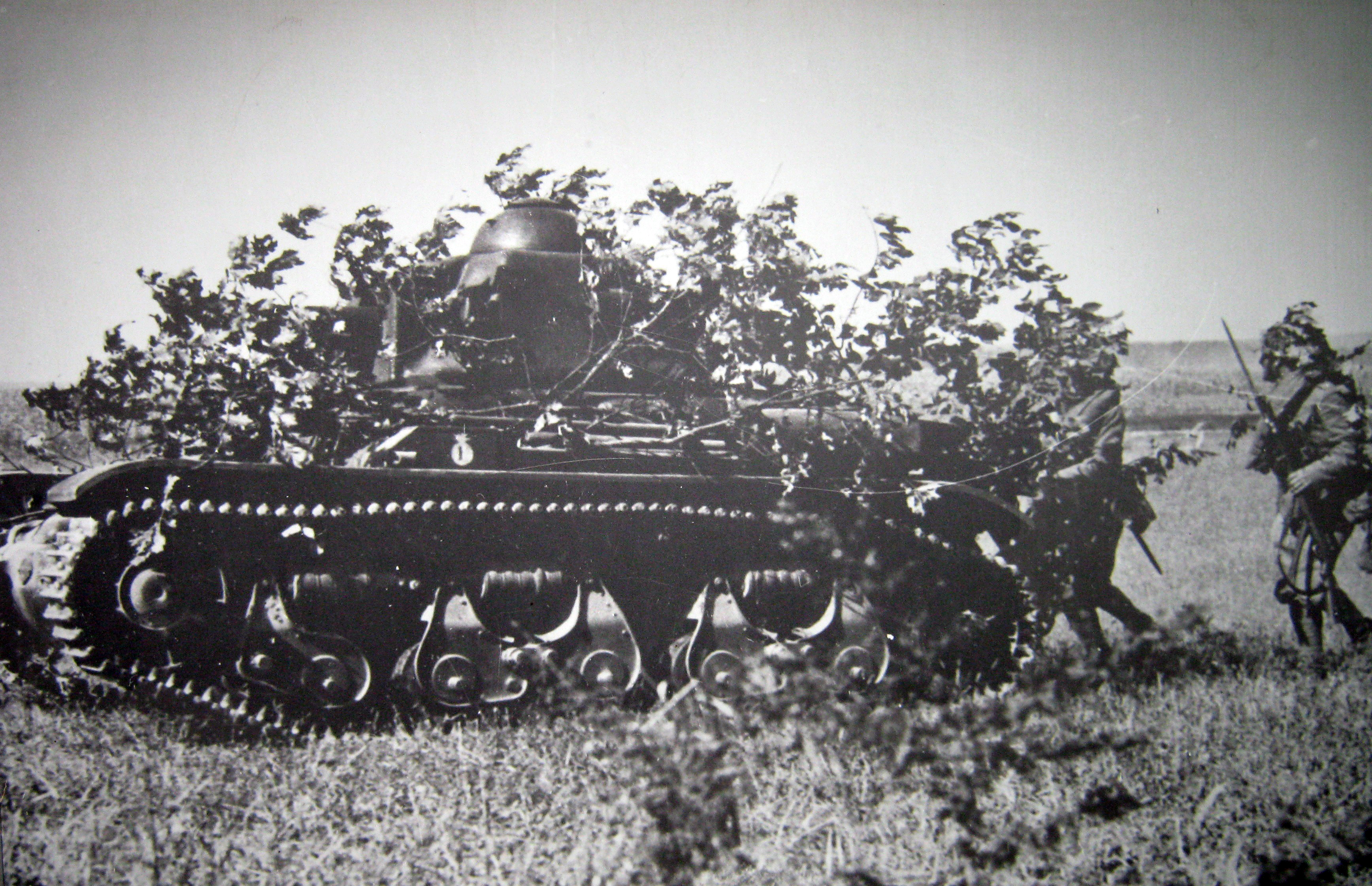 R35 Tanks,Great military maneuvers at Torlak,1940 Photo taken in:Military museum Belgrade